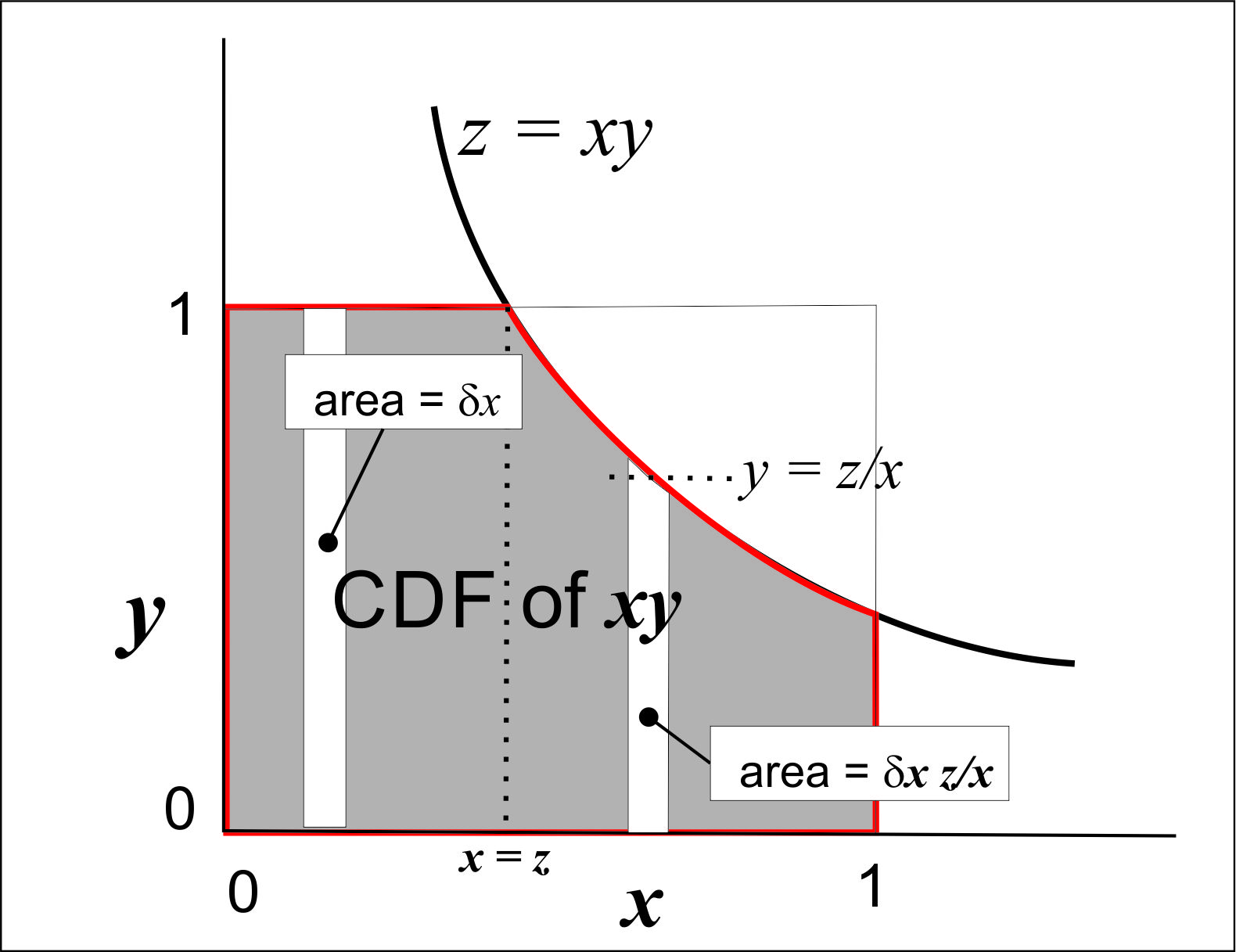 Integration of area under the z=xy line divides into two parts